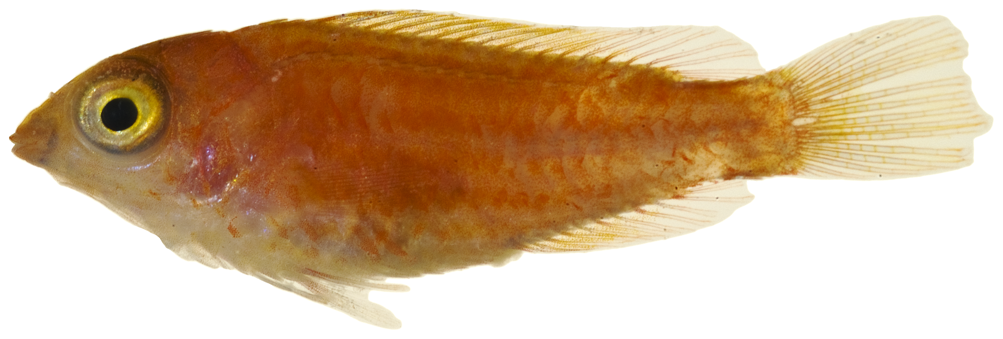 Sparisoma atomarium (Poey, 1861)—greenblotch parrotfish, 13.7 mm SL, juvenile color phase. Photo by JT Williams.